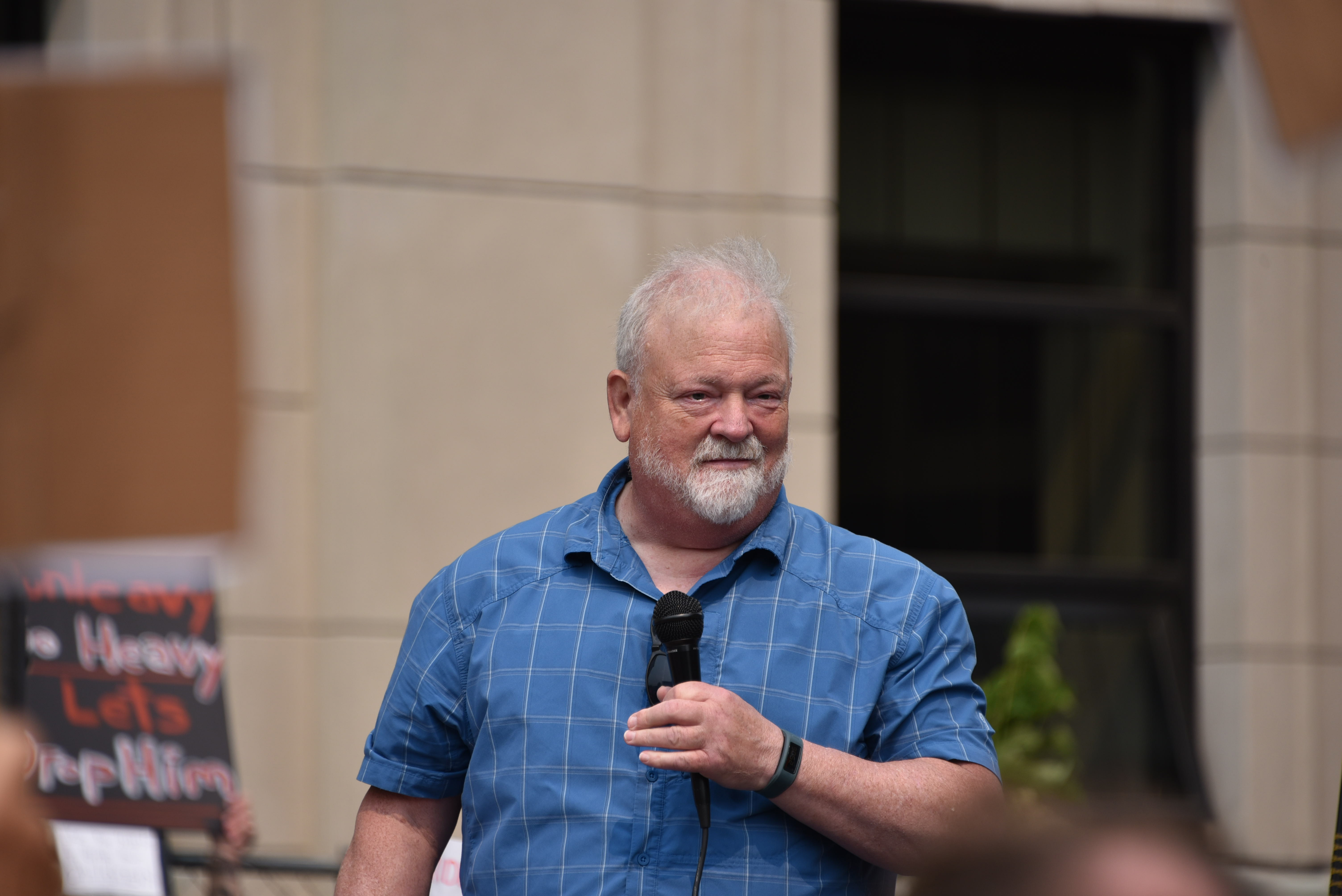 Juneau Rally for Overrides: Save Our State! Speaker Bruce Botelho, former Mayor of Juneau and Alaska Attorney General. At the Alaska Capitol Building, Juneau, Alaska.